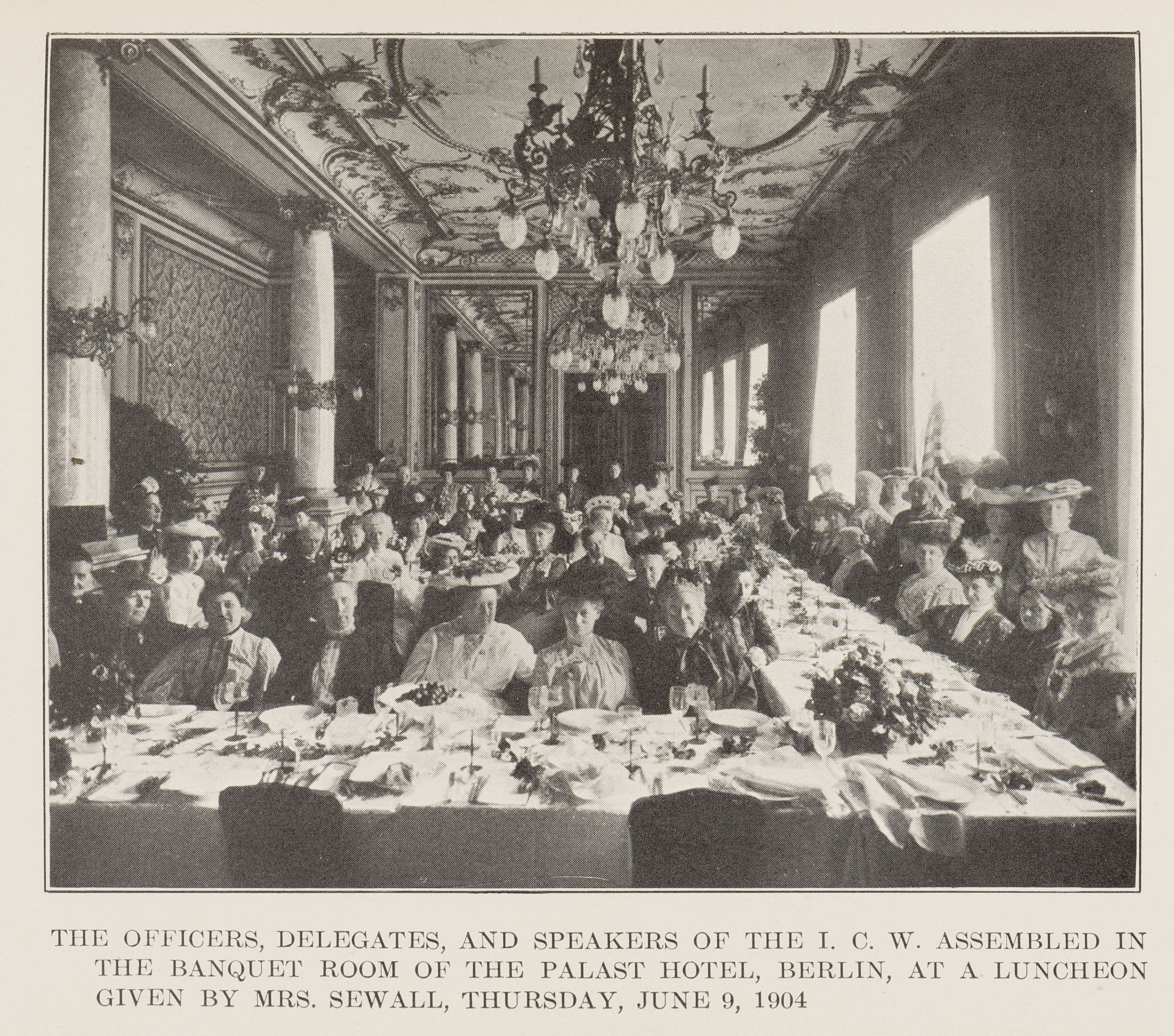 Cut from newspaper in English with photo with caption: "The officers, delegates, and speakers of the I. C. W. Assembled in the banquet room of the palast hotel, Berlin, at a luncheon given by Mrs. Sewall, Thursday, June 9, 1904". Relevant conference: Second Conference of the International Woman Suffrage Alliance in Berlin in June 1904 Photo of newspaper cut in repository of Archiv der deutschen Frauenbewegung (Archive of German Women's movement), Kassel. Photographer: Horst Ziegenfusz on behalf of Historisches Museum Frankfurt (Historical Museum Frankfurt). Published in Dorothee Linnemann (ed.): Damenwahl! 100 Jahre Frauenwahlrecht. Begleitbuch zur Ausstellung. Societäts-Verlag, Frankfurt am Main 2018, ISBN 978-3-95542-306-3, S. 80.